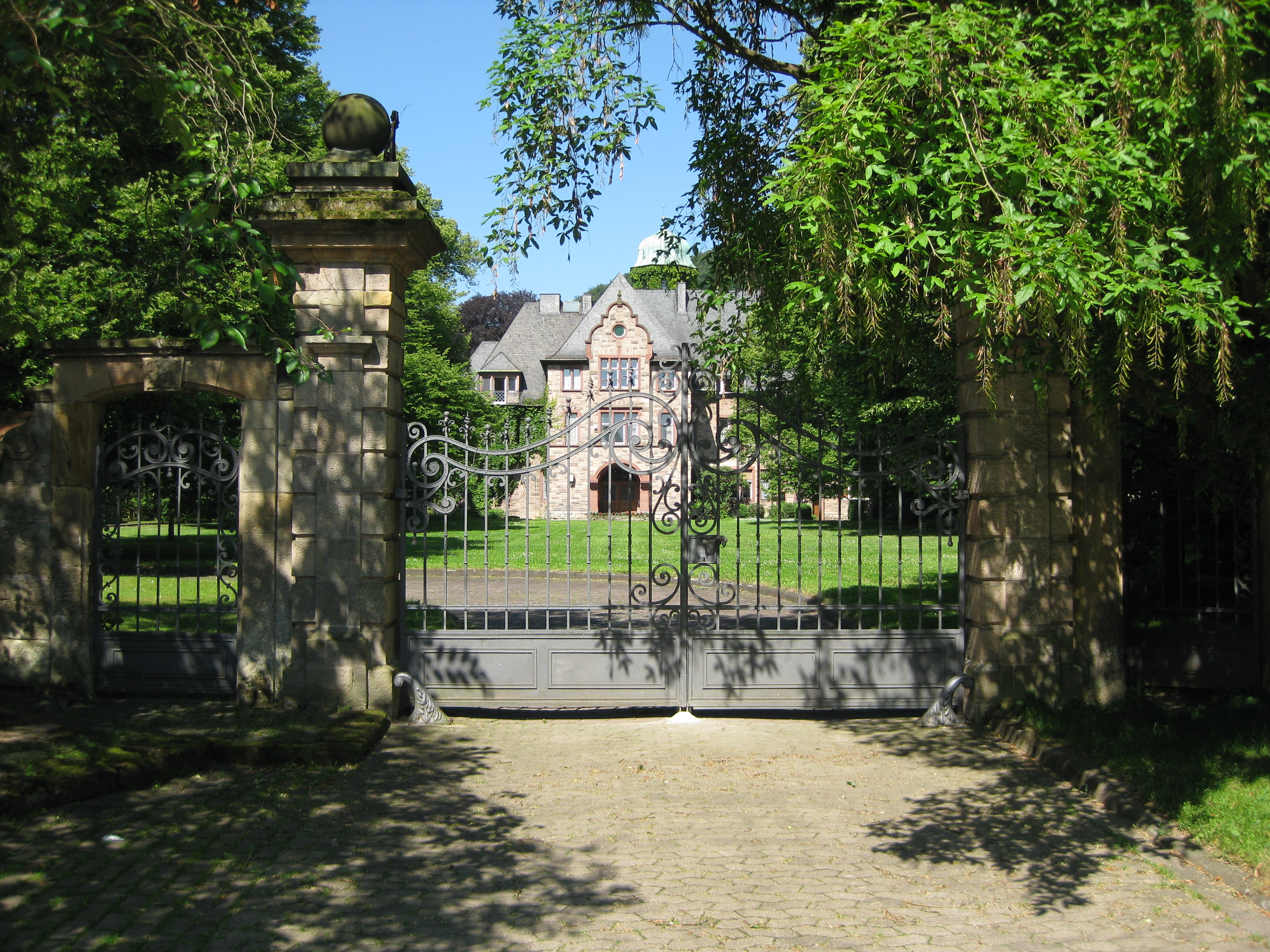 Hohenhaus manor in Holzhausen, municipality of Herleshausen in Hesse, Germany.